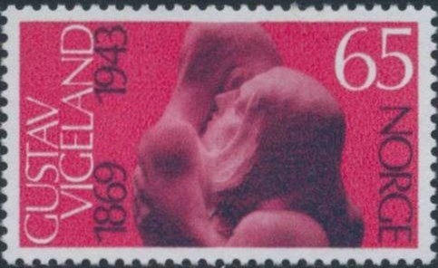 Norwegian 1969 stamp, showing art by Gustav Vigeland, commemorating his centenniary